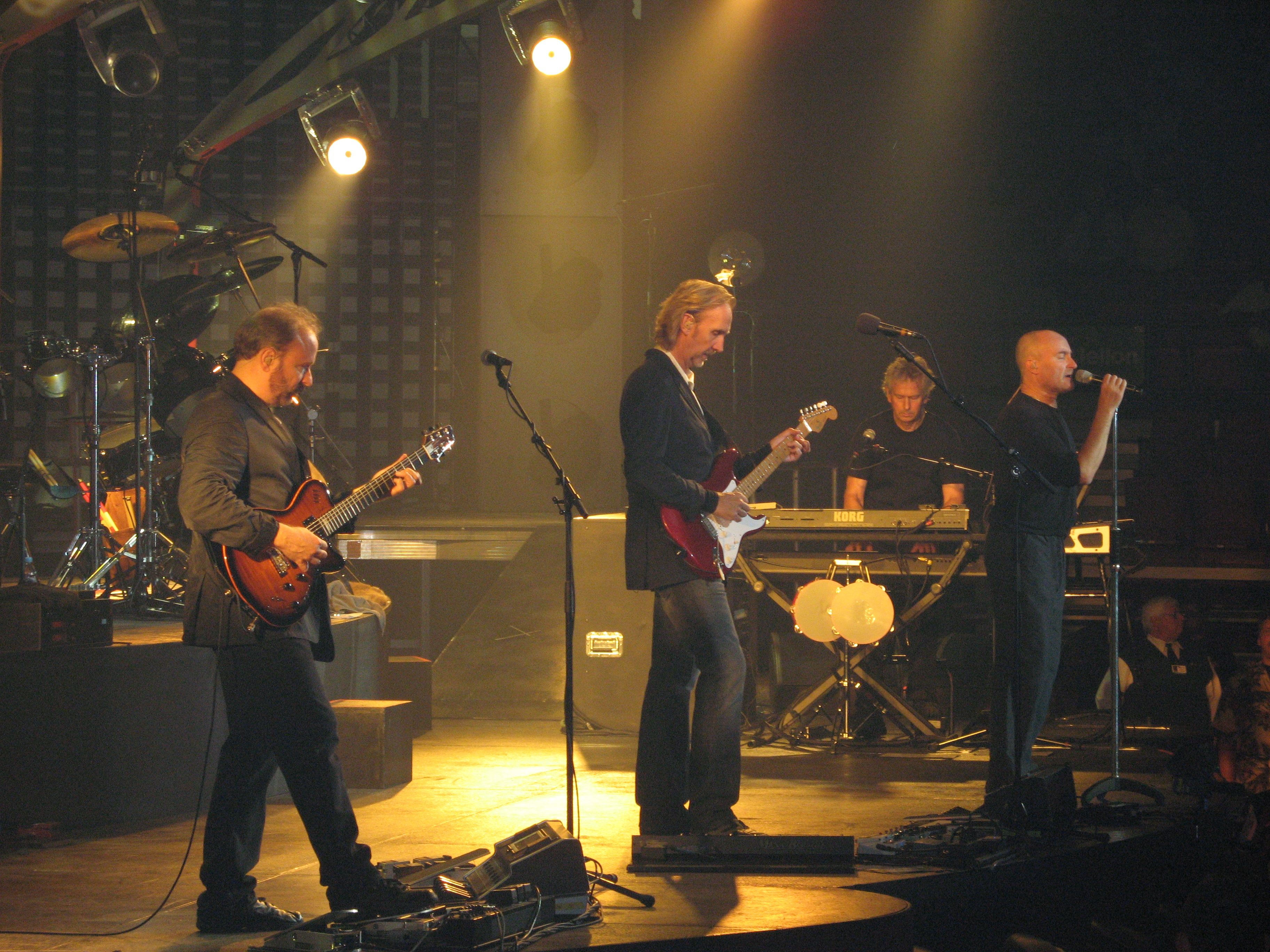 Genesis performing "The Carpet Crawlers" at the Mellon Arena, Pittsburgh, Pennsylvania, USA. From left to right: Daryl Stuermer, Mike Rutherford, Tony Banks, Phil Collins. Missing: Chester Thompson (off camera to left).